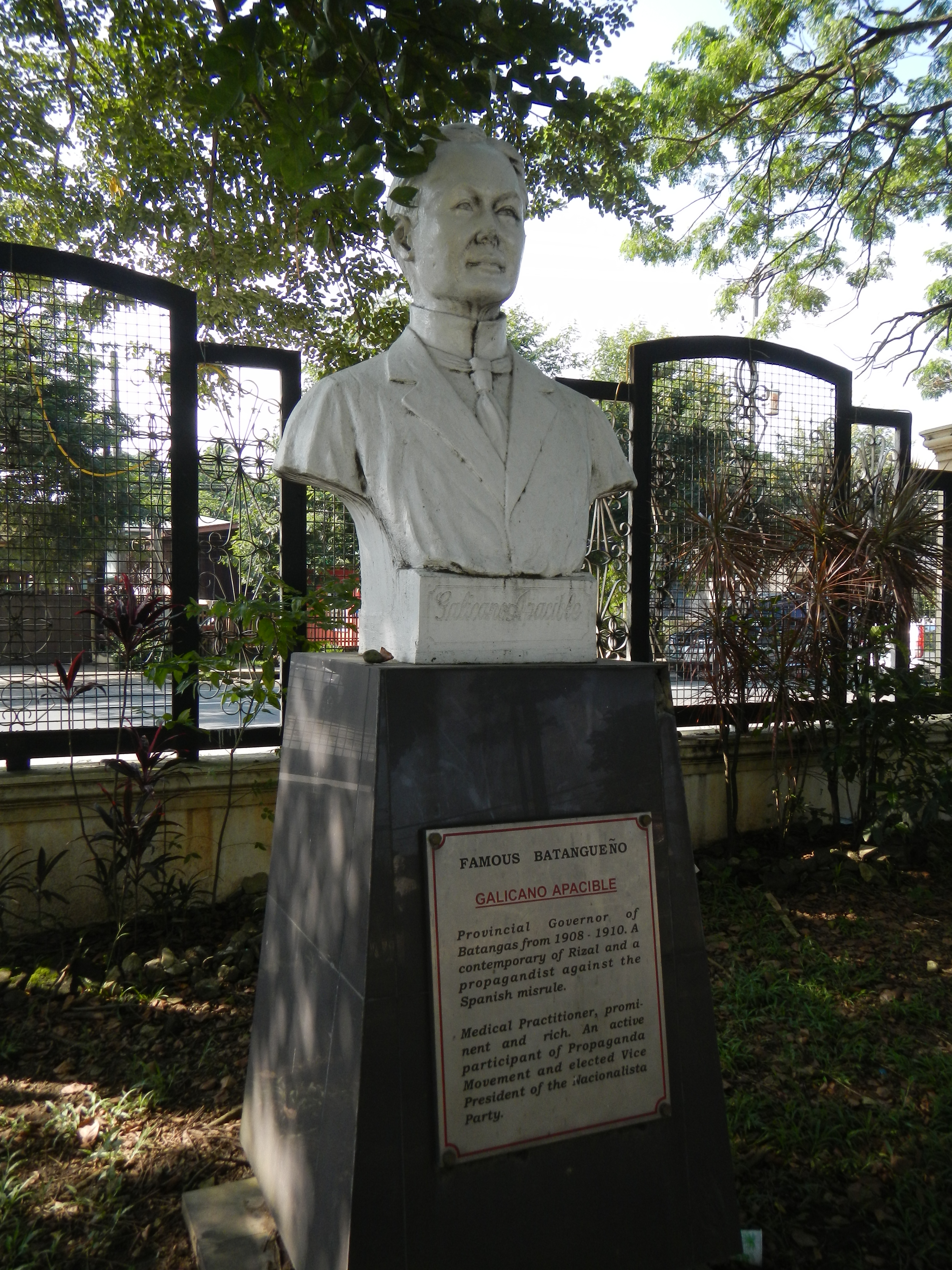 Upload Wizard -- (general description of landmarkds, town, church) - of - Felipe Agoncillo, Galicano Apacible [1], Teodoro Kalaw, busts, monuments at Historical Park of the --- Historical Park and Laurel Park - Capitol Site, - at the - Batangas [2] Provincial Capitol [3] Coordinates: 13°45'55"N 121°3'50"E Batangas City (the largest and capital city of the Province of Batangas, the "Industrial Port City of Calabarzon", 2010 census, the city has a population of 305,607 people - 1926 Batangas [4] Provincial Capitol [5] Coordinates: 13°45'55"N 121°3'50"E Batangas City (the largest and capital city of the Province of Batangas, the "Industrial Port City of Calabarzon", 2010 census, the city has a population of 305,607 people) and the Calumpang River, and the Batangas Central Terminal.